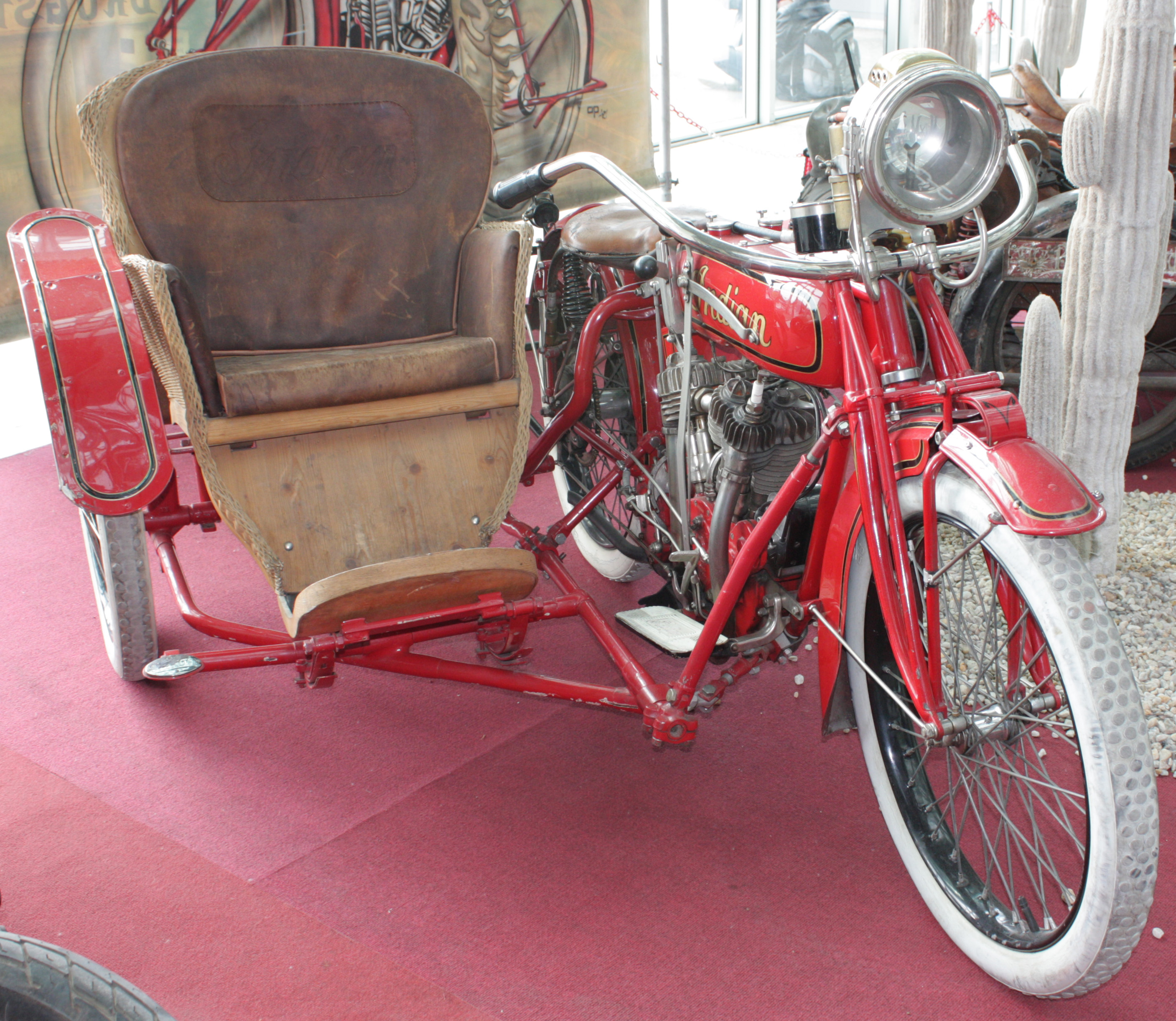 1918 Indian PowerPlus, 997 cc, 25 hp, with sidecar. Seen at the Harley-Davidson Exhibition at Berlin Ostbahnhof.